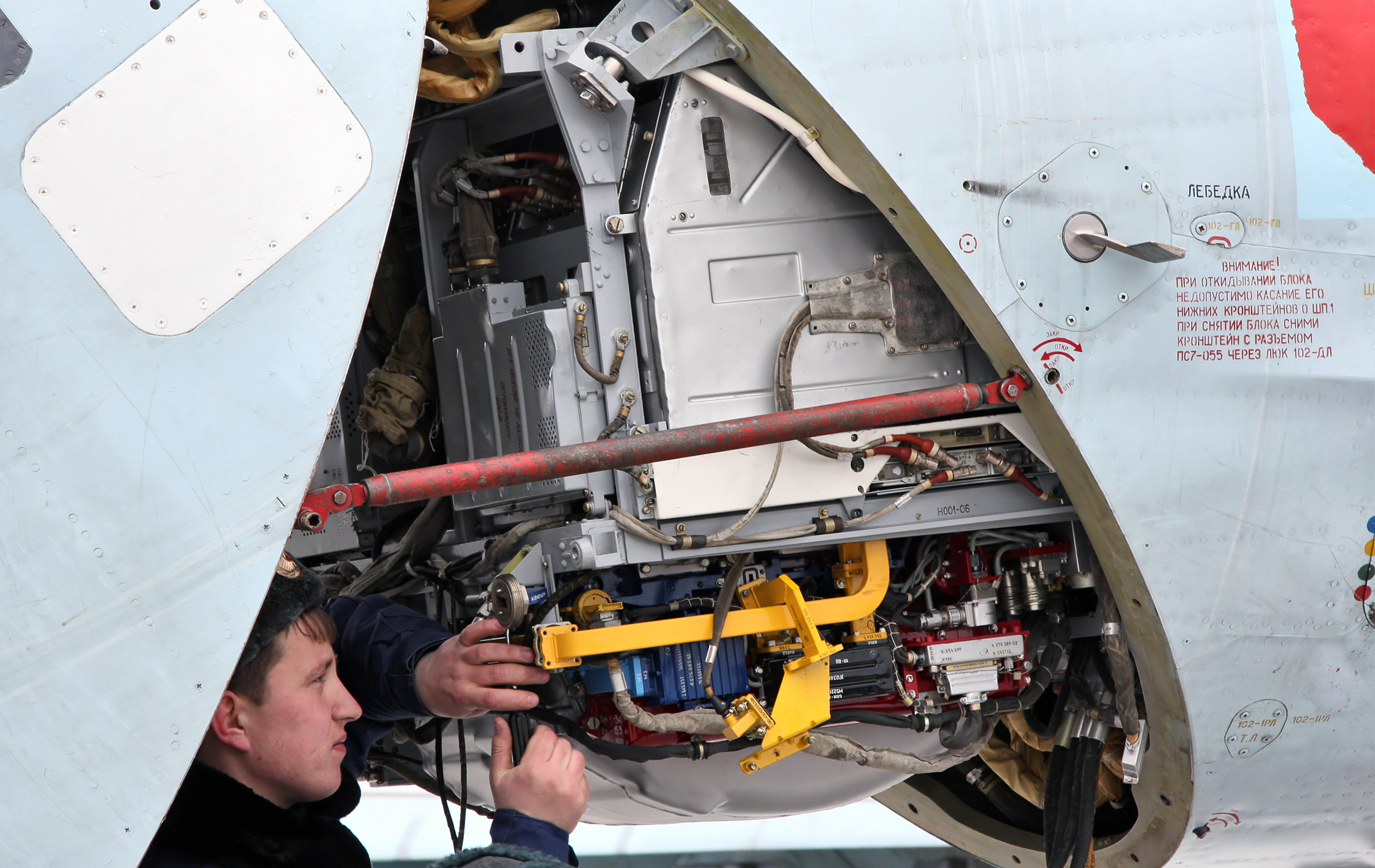 790th Fighter Order of Kutuzov 3rd class Aviation Regiment, Khotilovo airbase